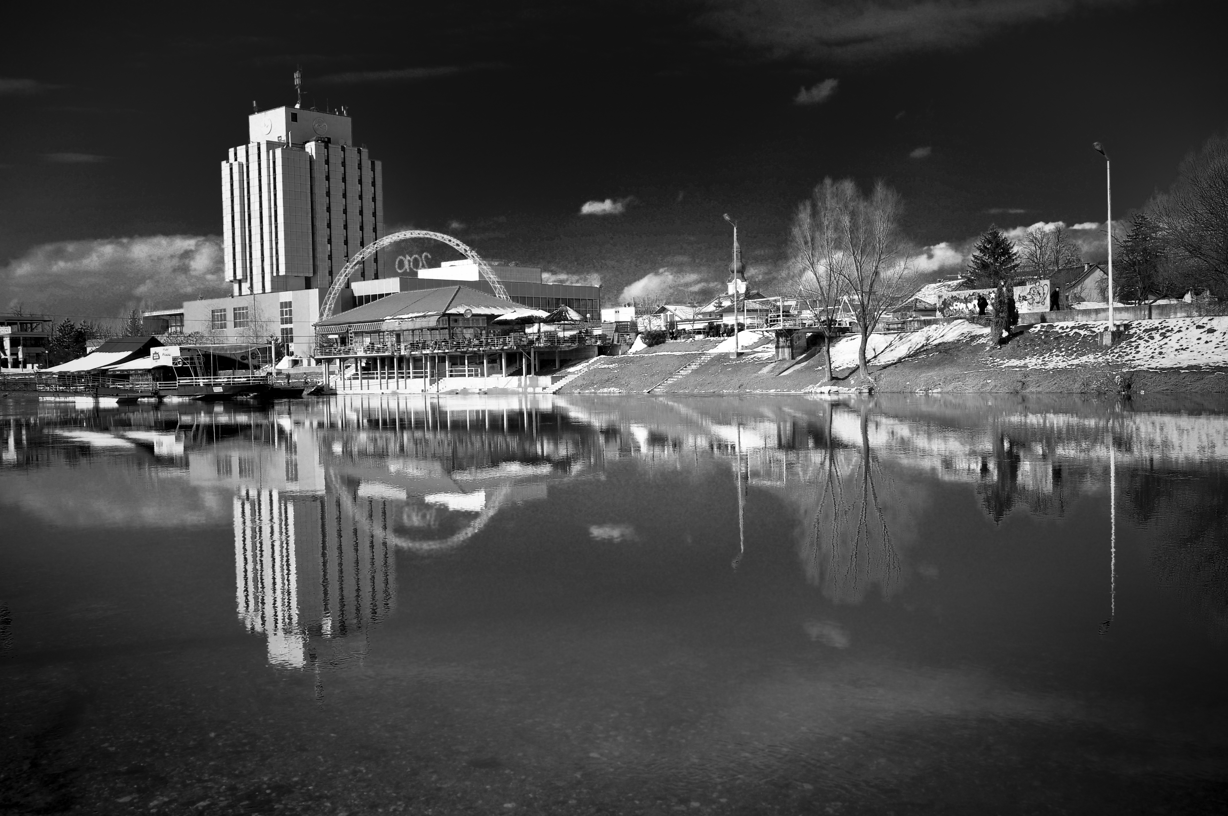 Hotel Prijedor in Prijedor, Bosnia and Hercegovina